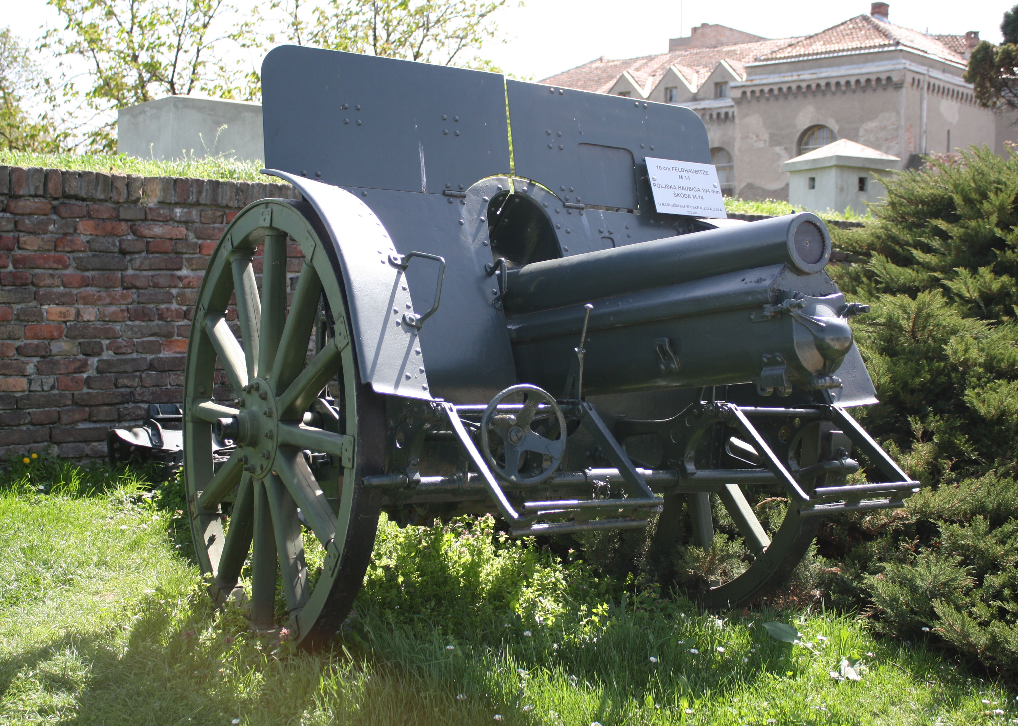 The Škoda 7.5cm Feldhaubitze M.14, part of Belgrade Military Museum outer exhibition at Kalemegdan fortres.